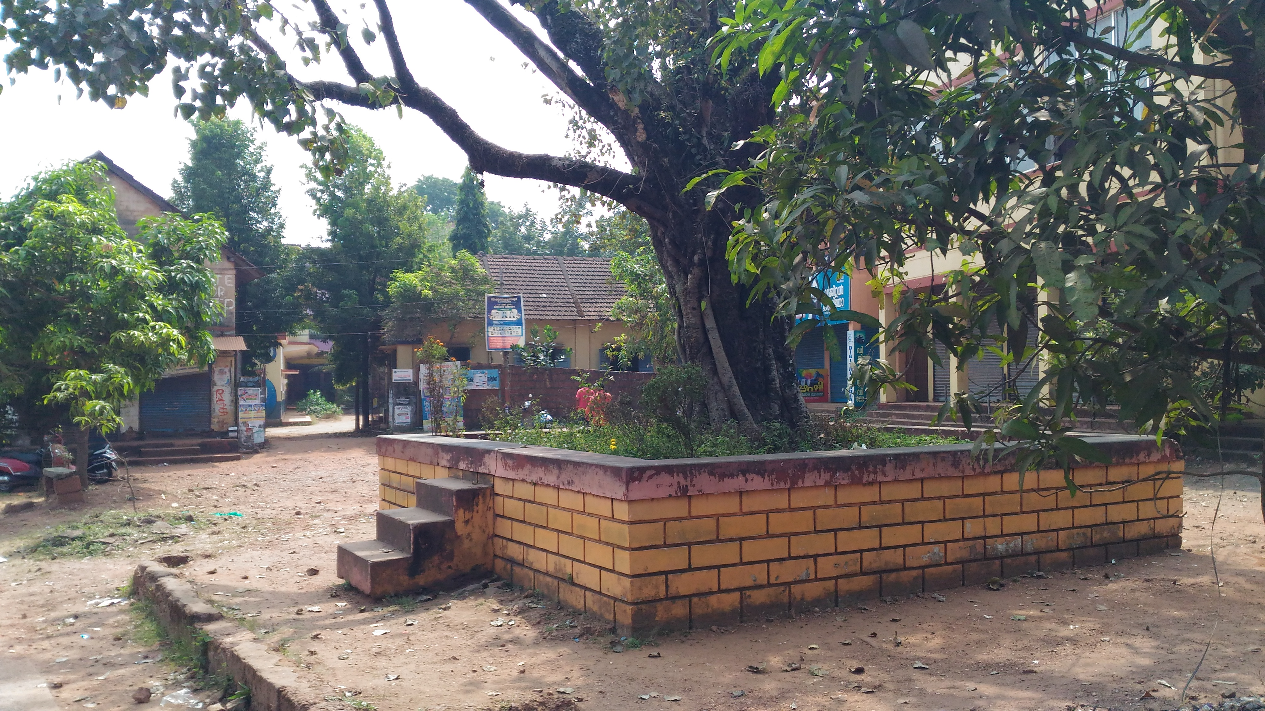 The ground known as MANTHOPPU MAITHANAM situated at Hosdurg in Kasaragod Dt of Kerala